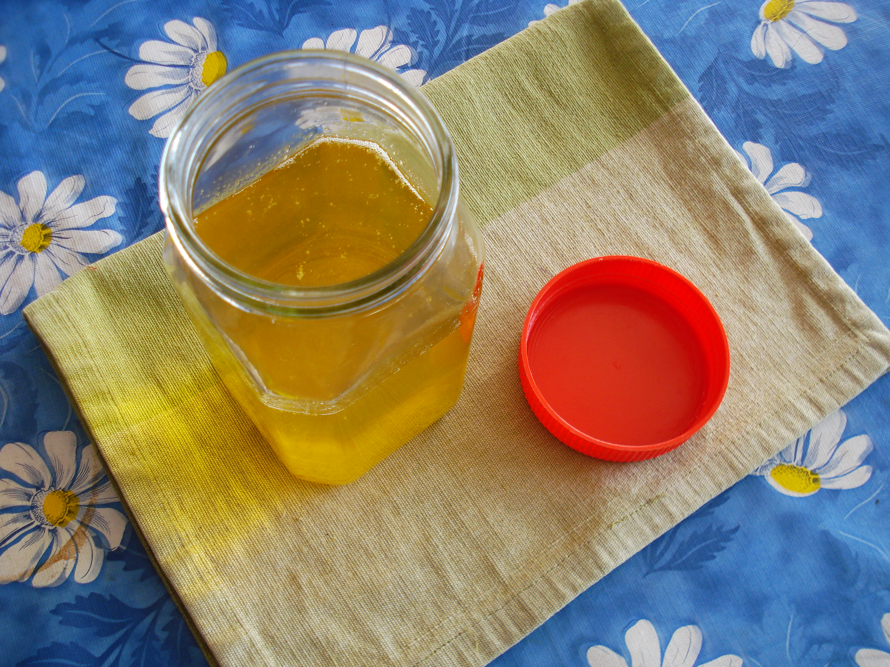 Just-made homemade ghee. Used in variety of Indian foods in different ways. Made from cow's milk by perpetually heating white butter(also homemade) made from cow's milk.